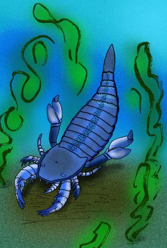 Reconstruction of the megalograptid eurypterid Pentecopterus decorahensis, of the Decorah Crater of Ordovician Illinois